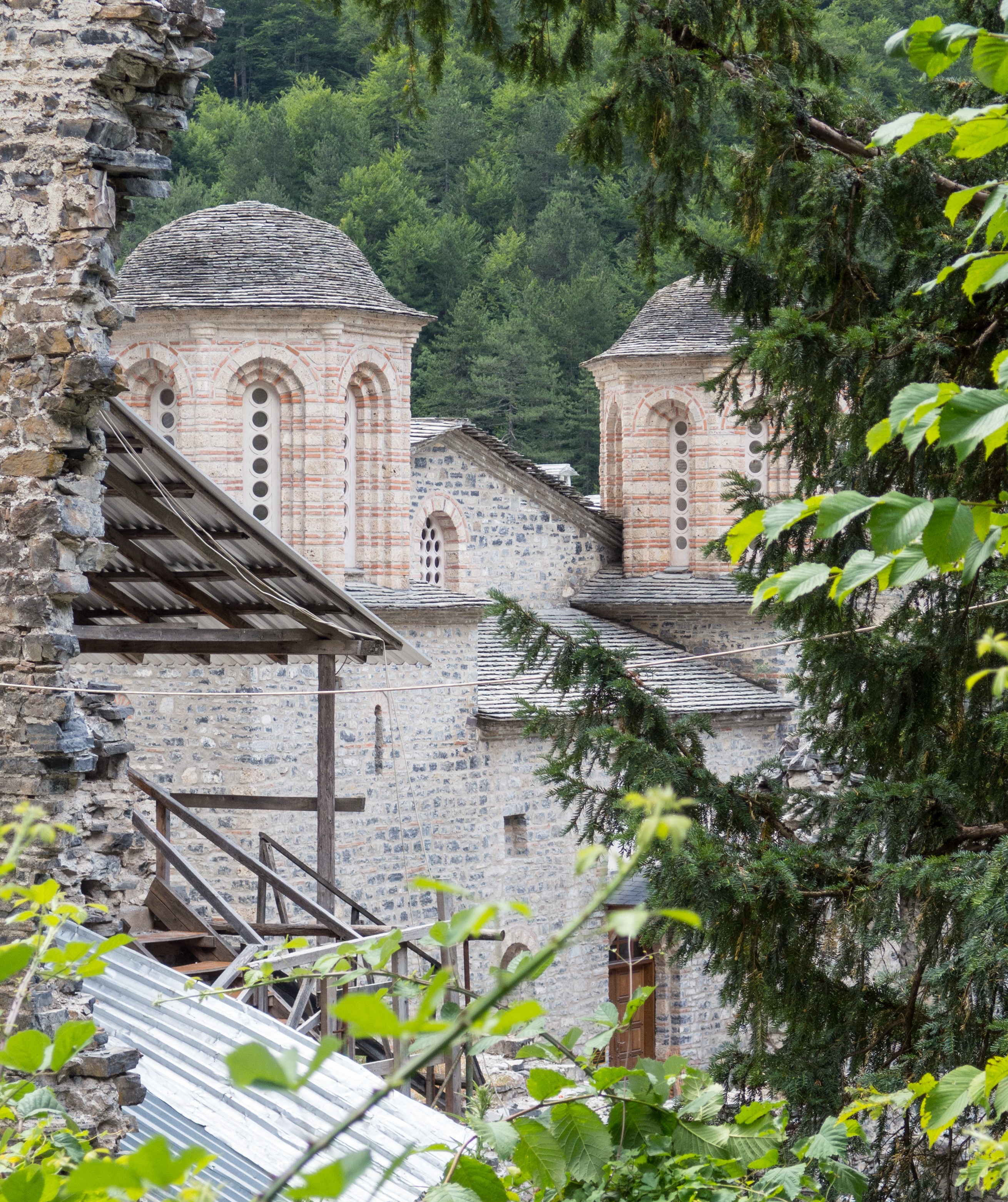 View of the Old Dionysios monastery on the Olymp